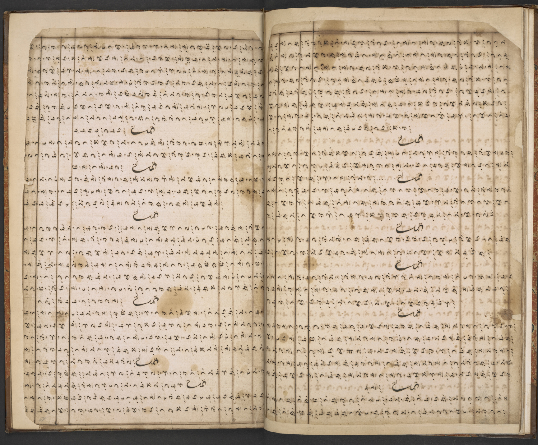 A snippet of MS 12351 - Copies of documents in Makasarese, written in the so-called Old Makasarese characters. The volume contains various items: Sayings of former princes (ff. 16 v, 12v).Disjointed notes on right behaviour and customary law (ff. 1-2).Legal texts (ff. 3v-11v).On the status of the countries of the island of Sumbawa which were subdued by Tumenanga riAgamana, king of Tallo' and co-ruler of Goa in the beginning of the 17th century (f. 34v).Treaties between Goa and Bone, and between Goa and Tallo' in the 16th century (ff. 16v, 12v).Declarations of war (ff. 16r-15v).Formulae used in various circumstances (f. 15r).Texts concerning the history of the following areas: Goa, up to and including the reign of Tu-menanga riPapambatuna (1649-53) (ff. 33r-24r); Tallo', up to and including the reign of Tu-mammalianga riTimoro' (1636-41) (ff. 24r-19r); Sanrabone (f. 19); Maros (f. 18v); Bangkala' (f. 18r). And texts on the ancestors of Karaeng Cenrana (f. 18) and of Tu-menanga riLakiung (lived 1652-1709) (f. 17v). (This description is taken from Dr A. A. Cense.)